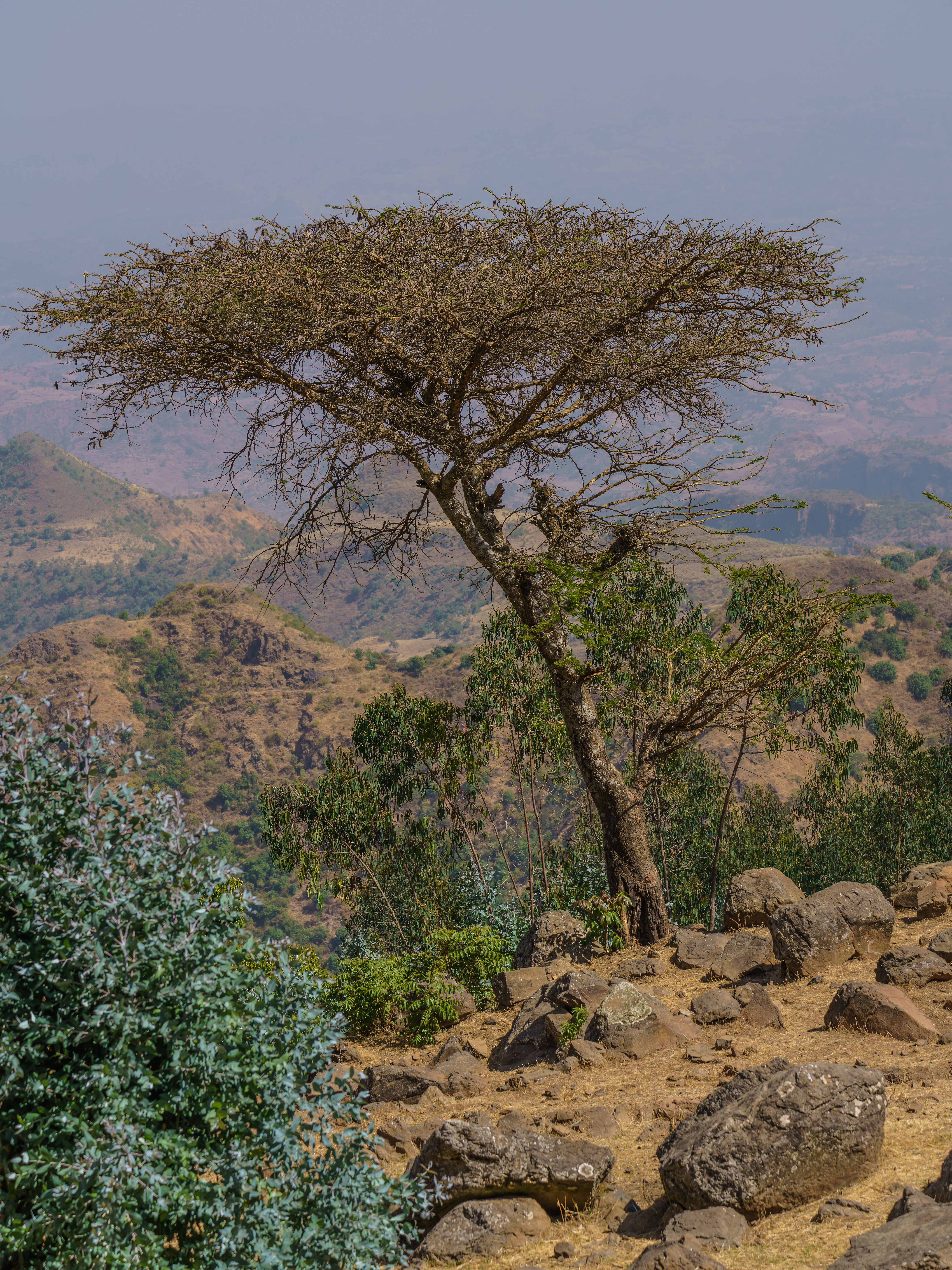 Umbrella thorn acacia at Wunenia near Gondar, Ethiopia